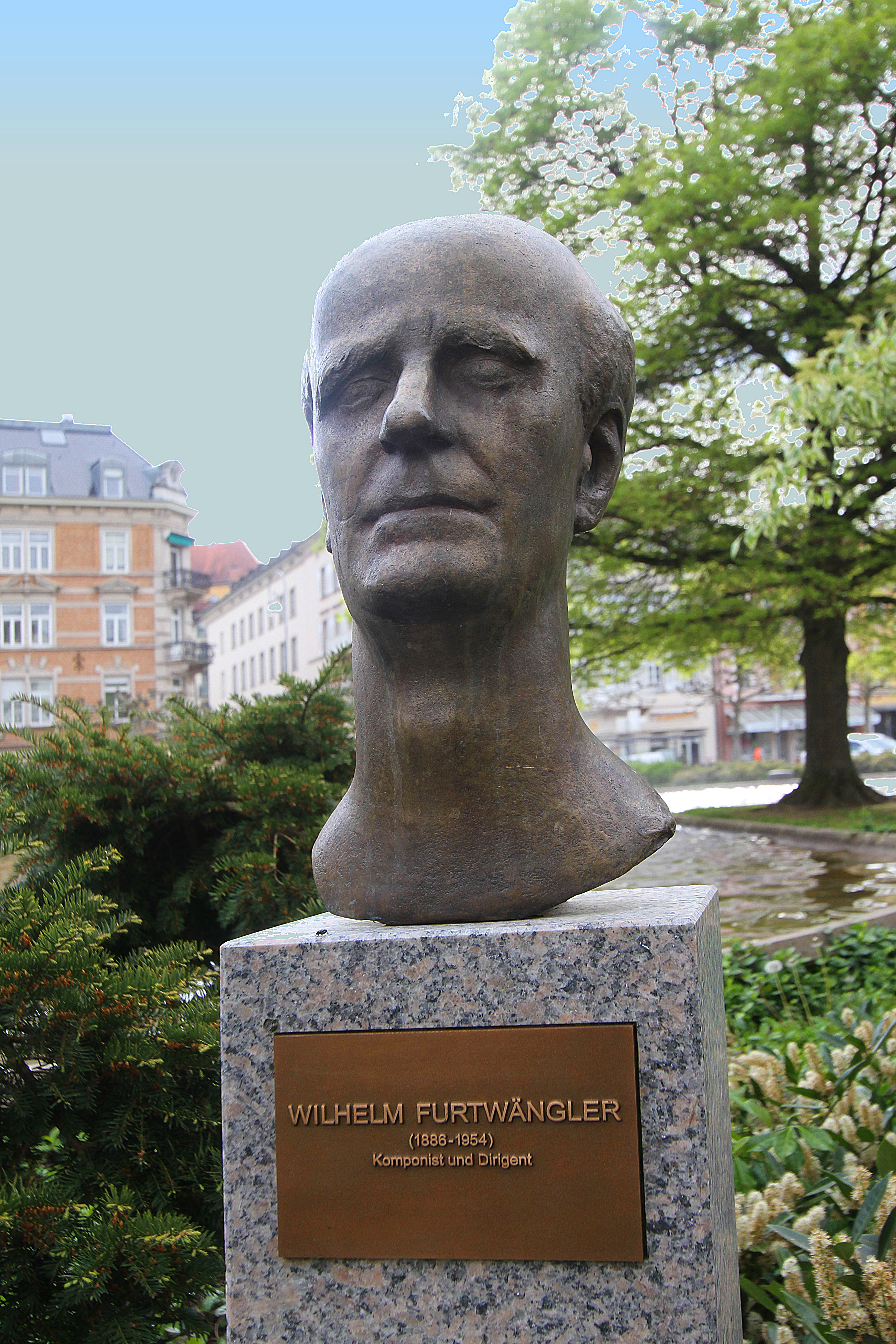 Bust of the conductor Wilhelm Furtwängler (1886-1954) at the Augustaplatz in Baden-Baden, built in 2009.